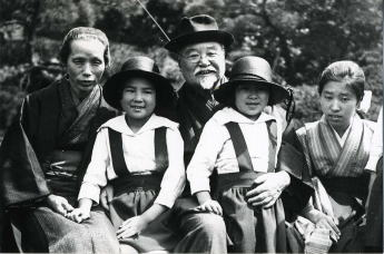 Japan’s Finance Minister Korekiyo Takahashi (高橋是清, 1854–1936) with his family shortly after he was elected to the House of Representatives in 1924 (1924年に衆議院選挙に初当選直後の記念写真).